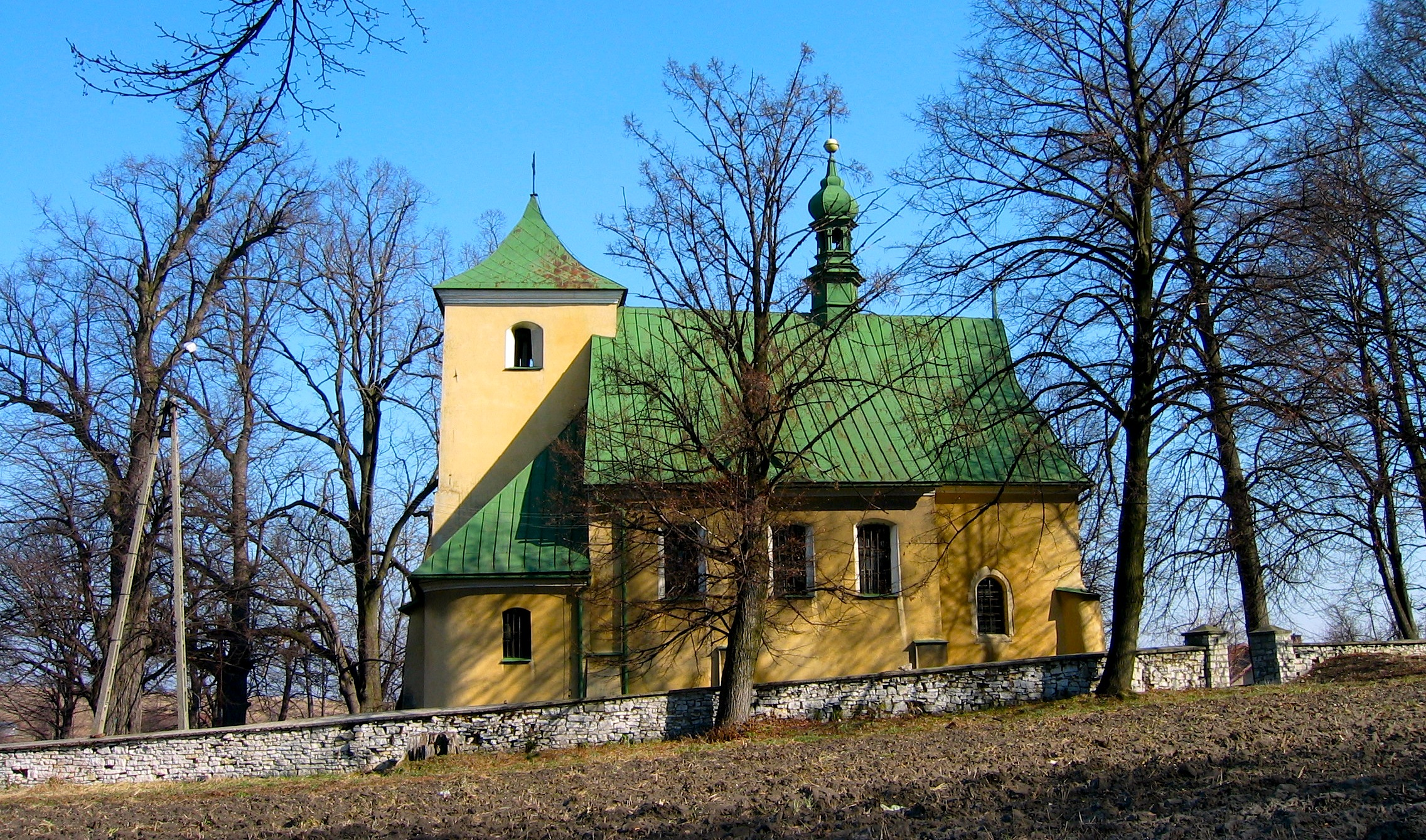 The old church in Płaza near Chrzanów, 16th c.